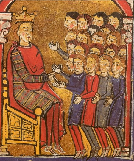 Liber Feudorum Ceritaniae - Alphonse I/II the Chaste, crowned and sitting on his throne, receives the tribute of the men of Perpignan.